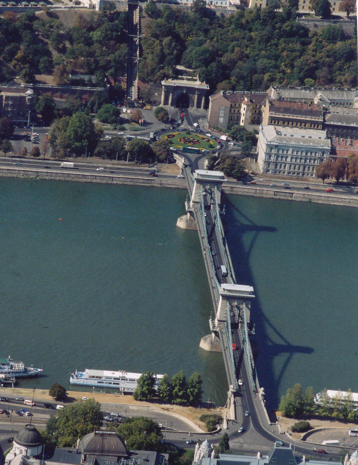 Chain-Bridge - Budapest - Hungary - Europe